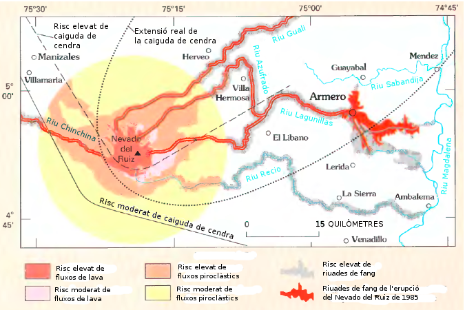 Volcanic hazard map for Nevado del Ruiz. Lahars from 1985 eruption (which killed around 23,000 people) shown in red. Original caption: "Map showing hazards expected from an eruption of Nevado del Ruiz, Colombia. Such a map was prepared by INGEOMINAS (Colombian Institute of Geology and Mines) and circulated 1 month prior to the November 13, 1985, eruption of Nevado del Ruiz. Map shows danger from mudflows in the valley occupied by the town of Armero, Colombia, as well as areas affected by the hazards that resulted from this eruption. Circle denotes 20-kilometer limit."